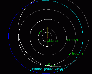 The quasi-circular orbit of (119951) 2002 KX14 compared to Pluto and Neptune.